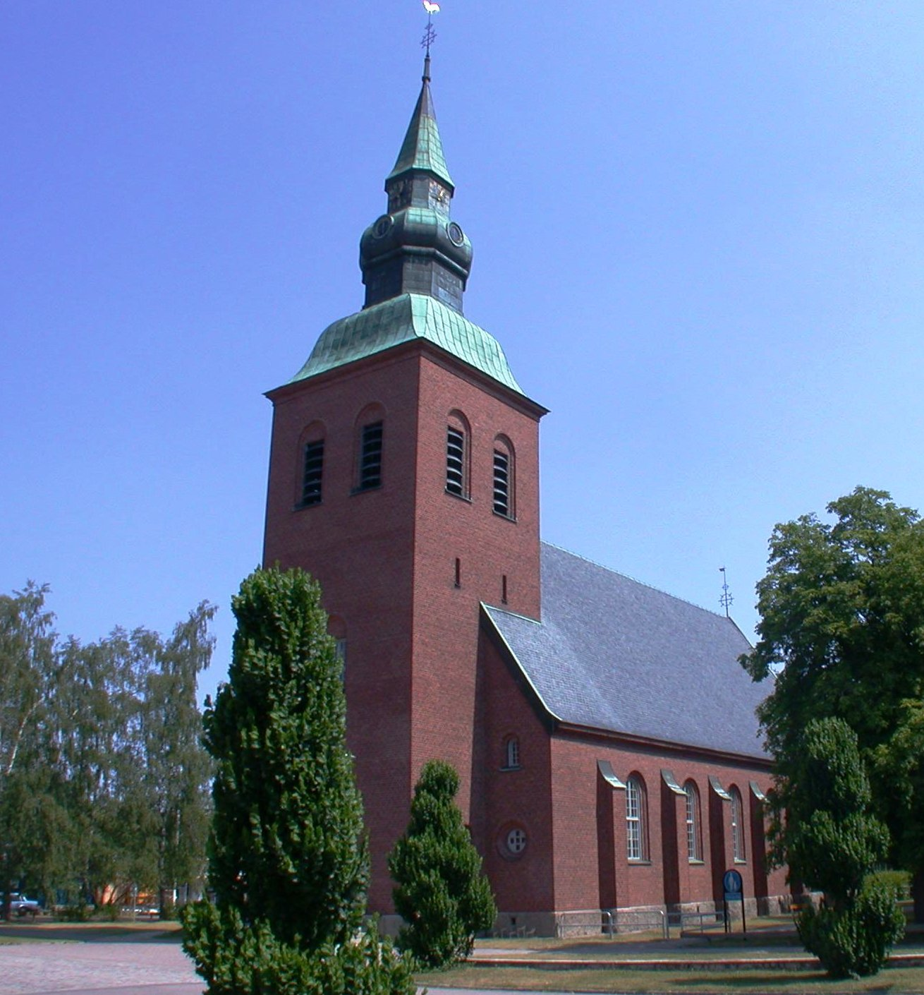 Nybro church, Nybro, Sweden. Photo by Riggwelter, July 7, 2006.